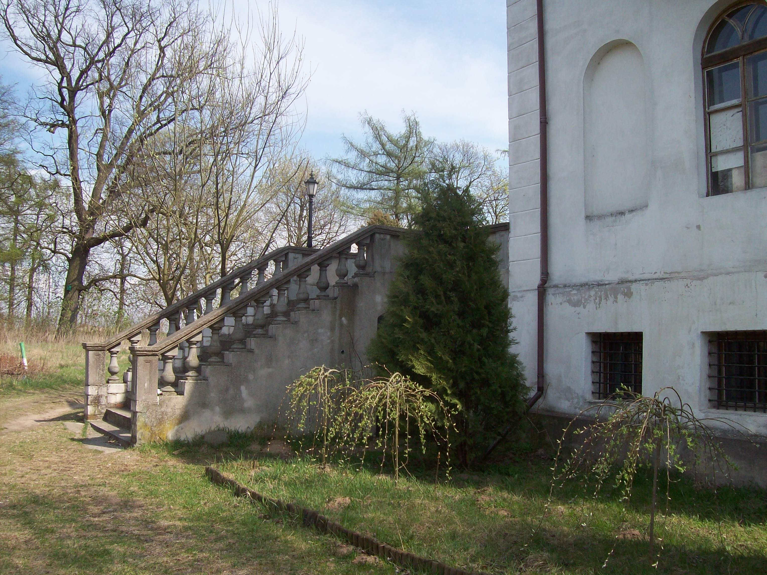 Manor in Swiesz PL April 2012